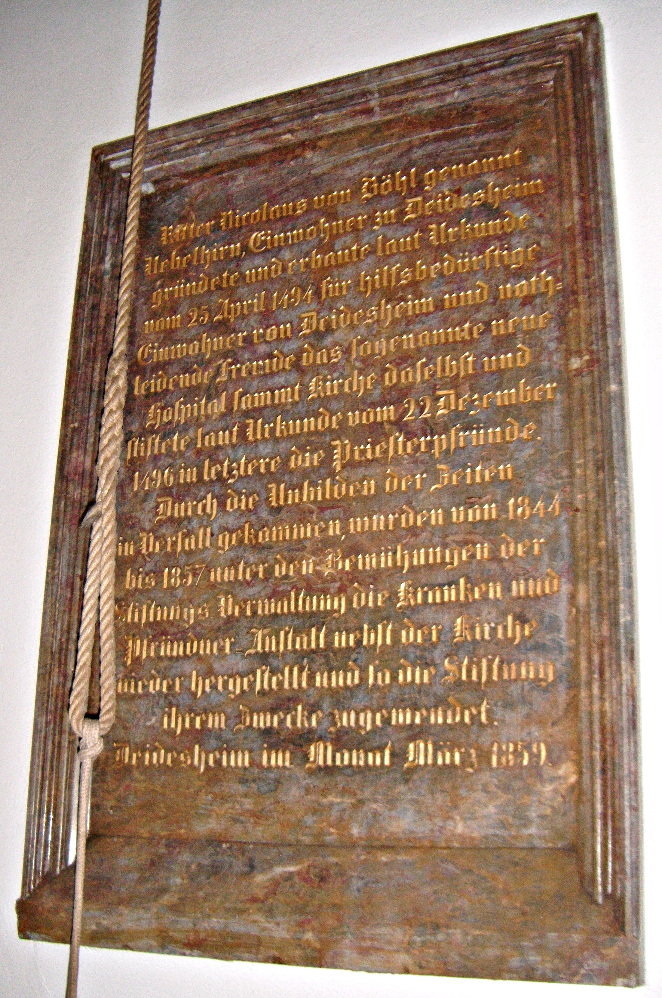 Deidesheim Spitalkapelle, Gedenktafel, 1859